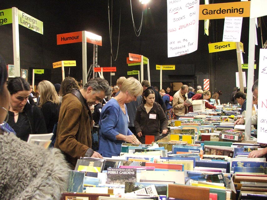 The Regent Theatre 24-hour Book Sale in Dunedin, New Zealand is New Zealand's and possibly the Southern Hemisphere's largest second-hand book sale.